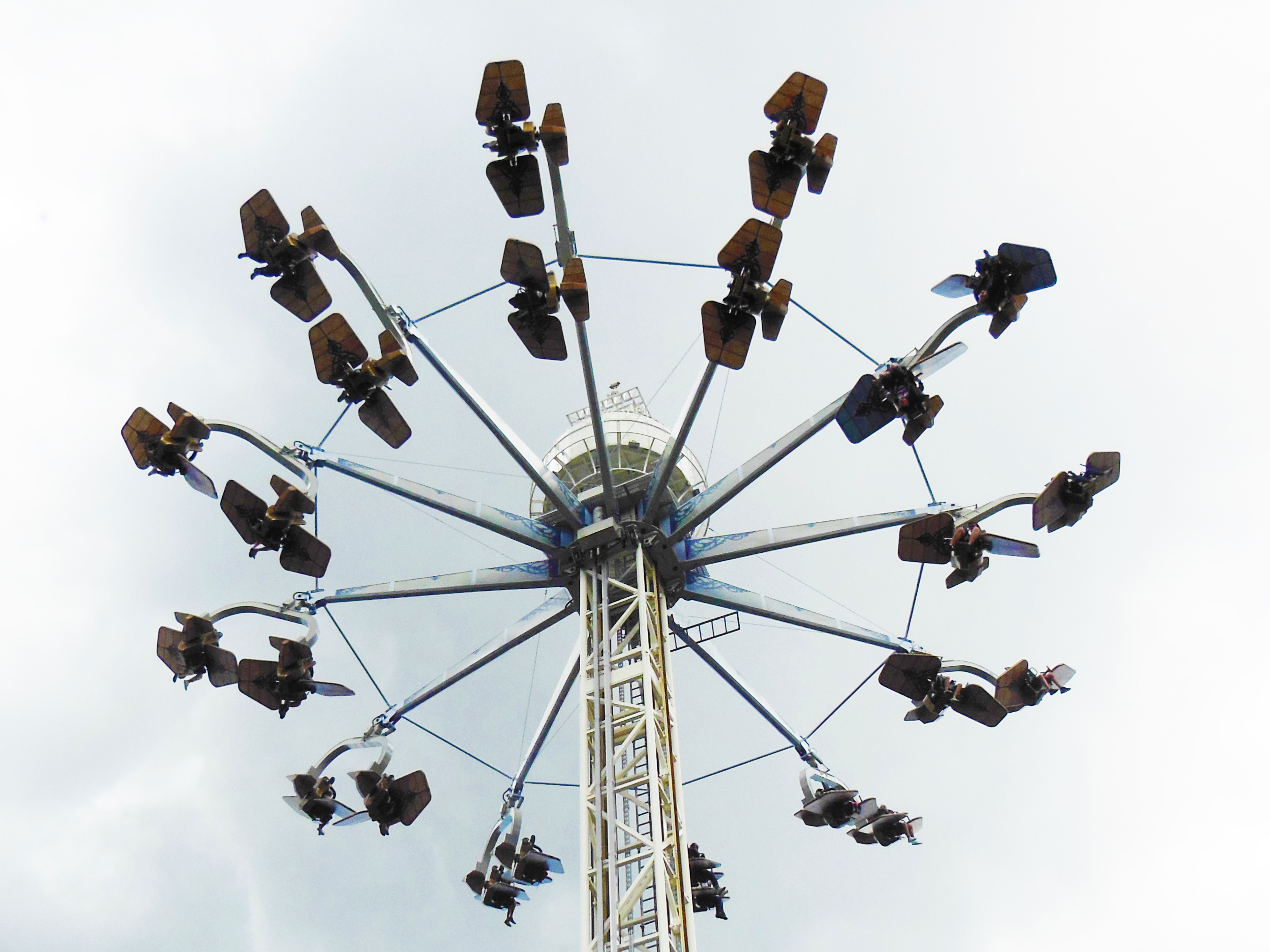 AeroSpin is an amusement ride at the Liseberg amusement park in Gothenburg, Sweden.